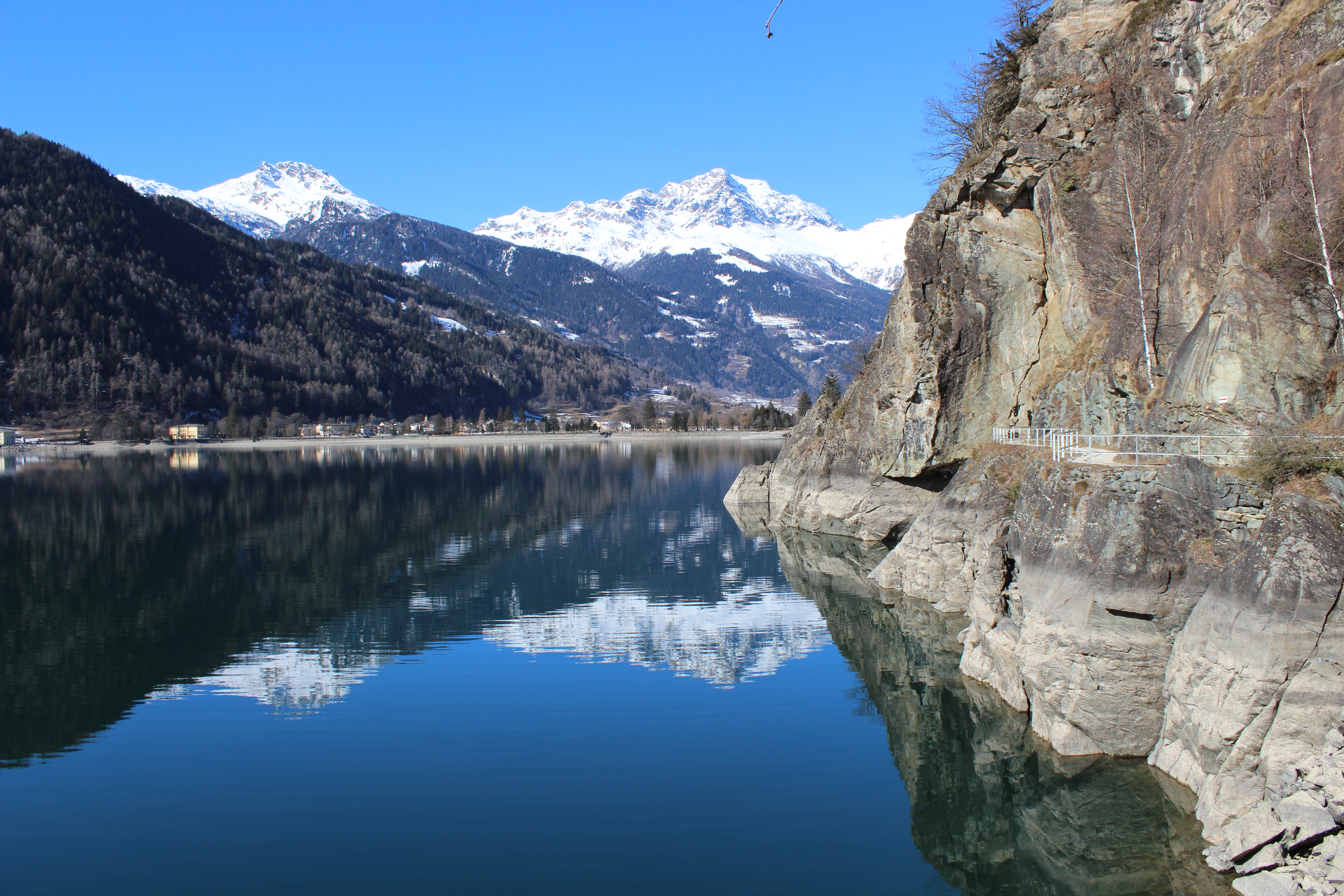 Walking Trail on East side of Lake Poschiavo, Switzerland